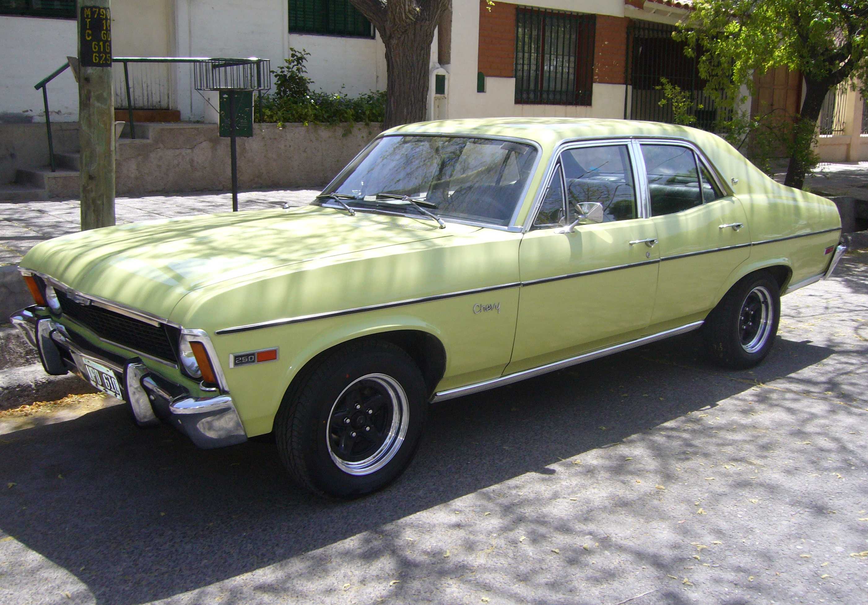 1974 Argentinian Chevy Super